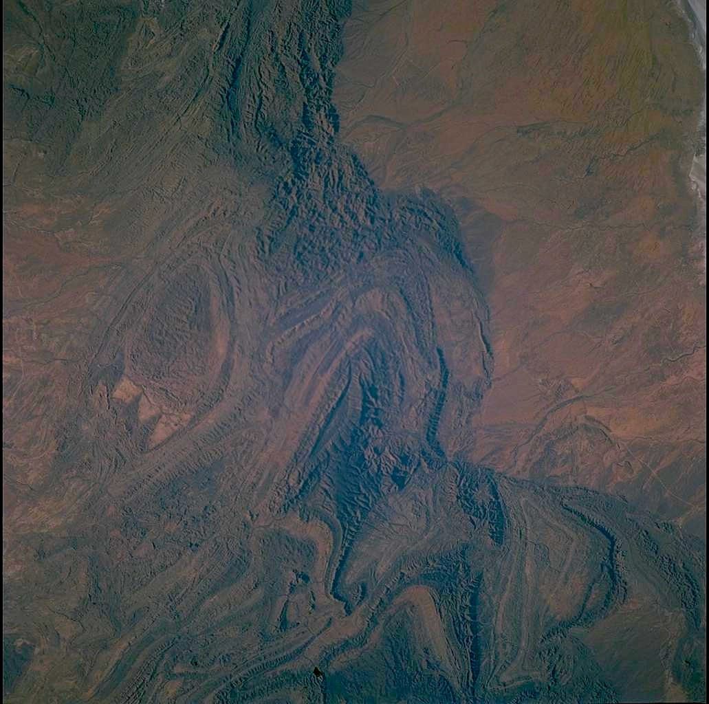 Flinders Ranges from space. Image courtesy of the Image Science & Analysis Laboratory, NASA Johnson Space Center. North is left; south is right ( Image was slightly color corrected to make features more distinct. Source for the original: Mission: ISS002 Roll: 728 Frame: 89 Mission ID on the Film or image: ISS002 Country or Geographic Name: AUSTRALIA-SA, Features: FLINDERS RANGE, Center Point Latitude: -31.5 Center Point Longitude: 138.5 (Negative numbers indicate south for latitude and west for longitude) Stereo: (Yes indicates there is an adjacent picture of the same area)